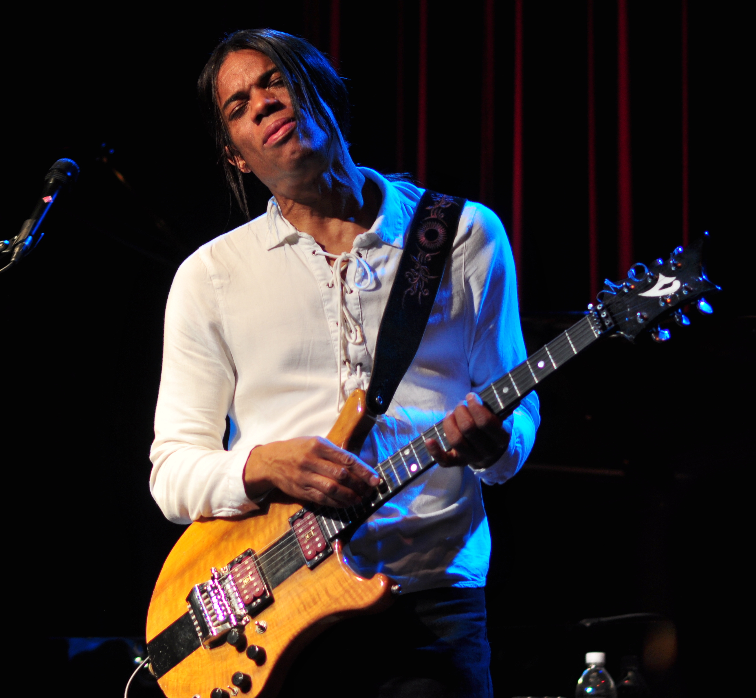 Stanley Jordan (born July 31, 1959) is an American jazz/jazz fusion guitarist, best known for his development of the touch technique for playing guitar. Shown here performing at Jazz Alley, Seattle, Washington, U.S.